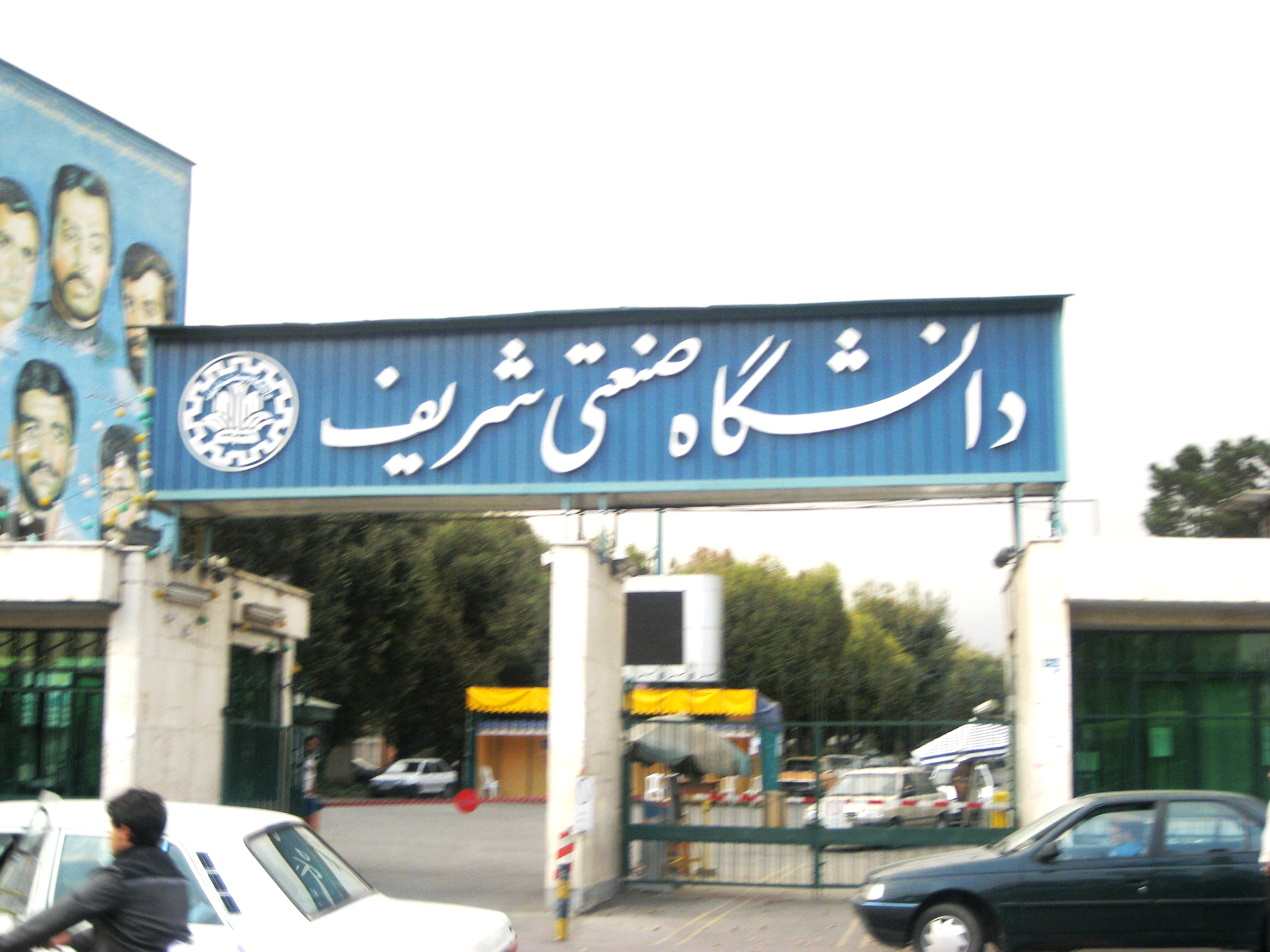 Sharif University name board, Tehran, Iran